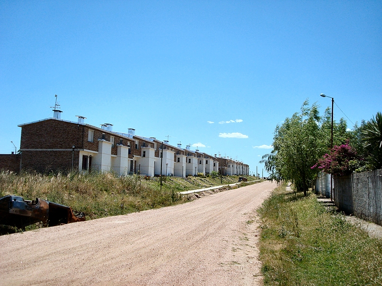 New residential complex in Parque Guaraní